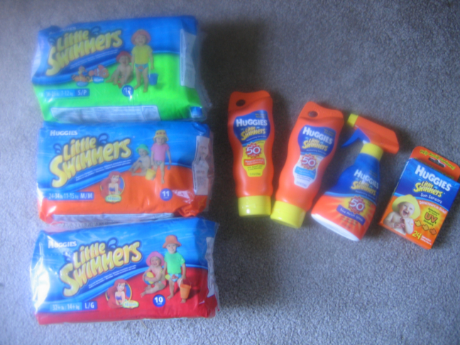 GAH, these photos are all out of order. This is the prize pack I won from a drawing I entered at BlogHer.